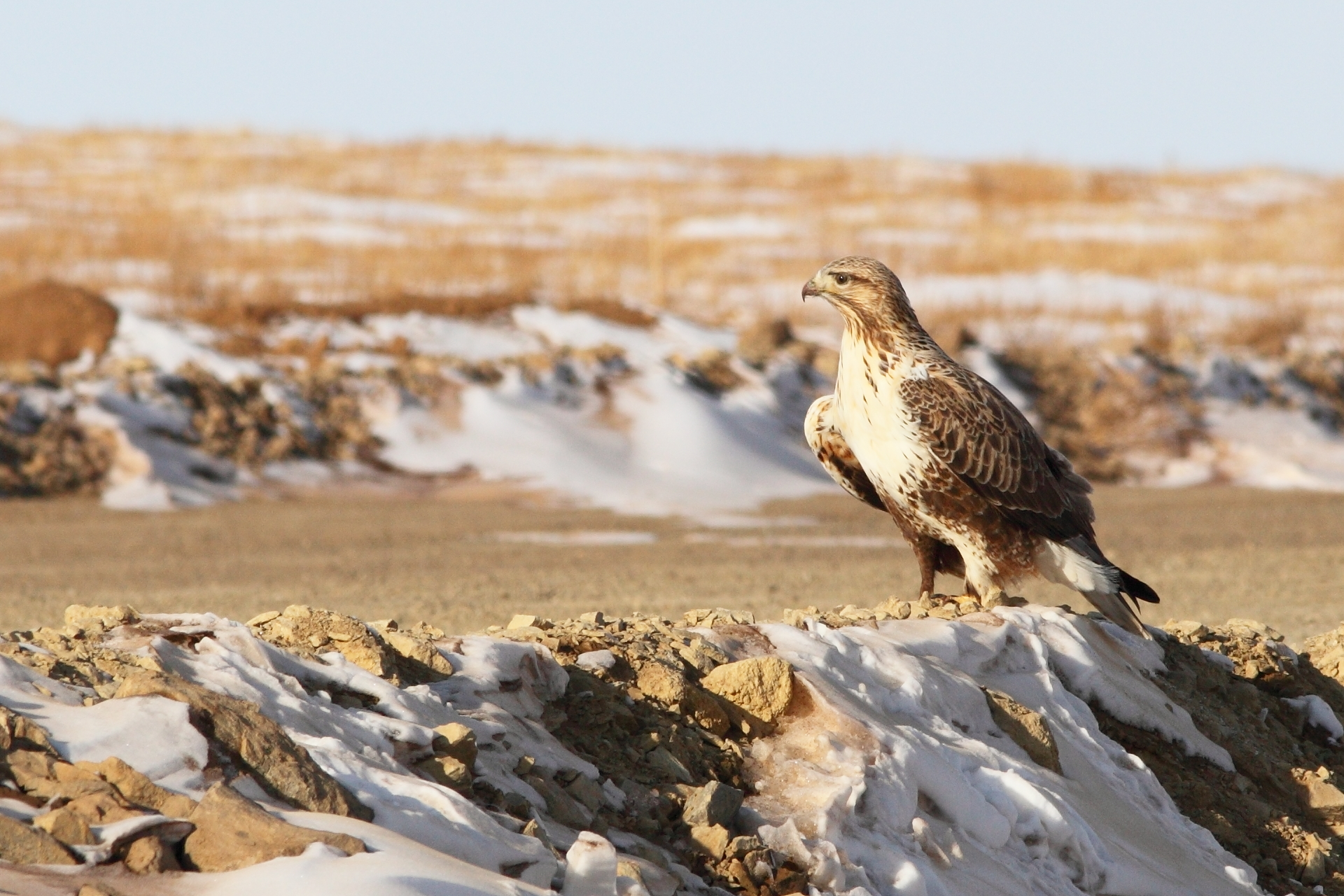 A Rough-legged Buzzard Buteo lagopus in winter between Baga Gazaryn Chuluu and Terelj National Park, Mongolia.